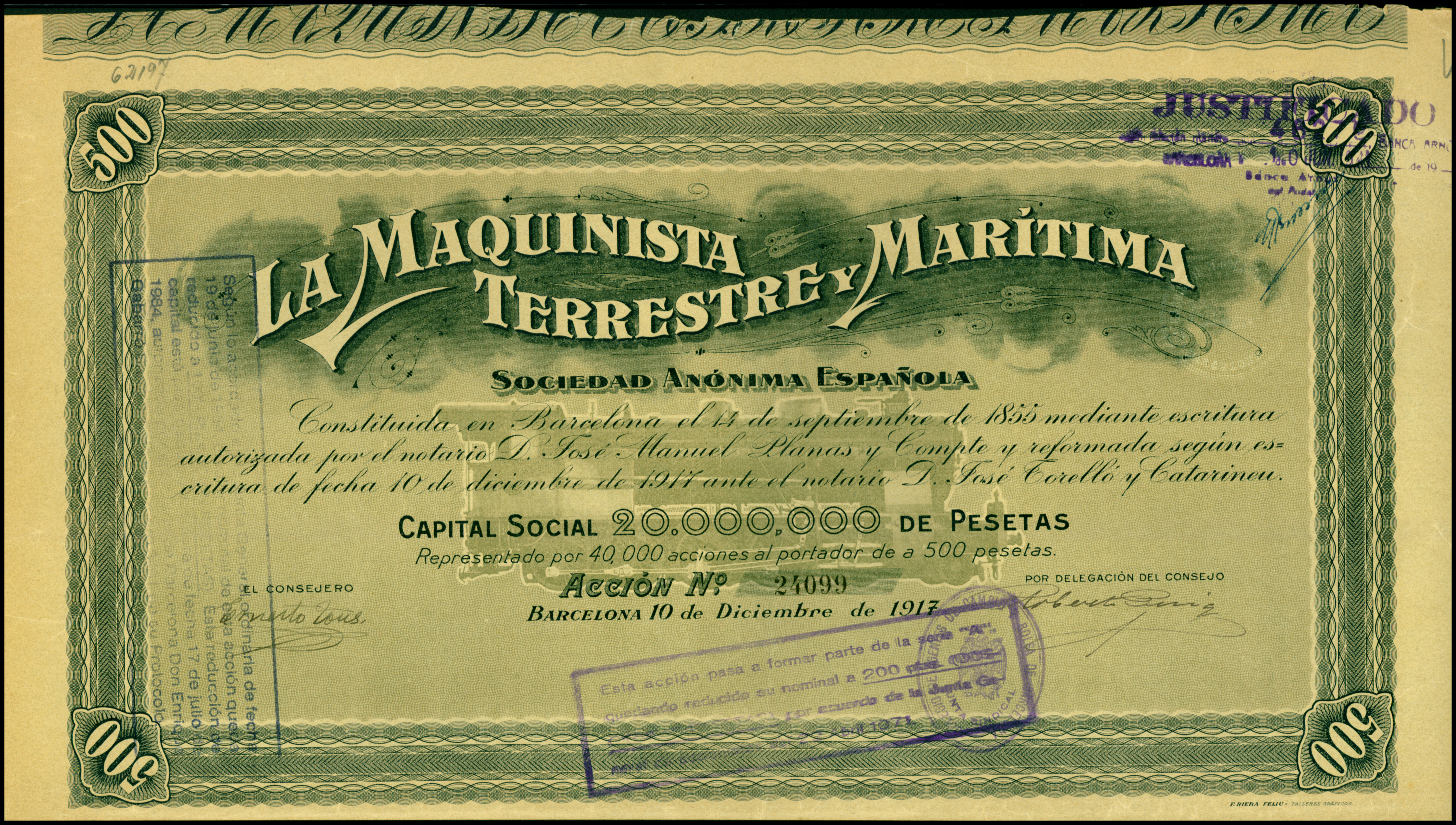 Share of La Maquinista Terrestre y Marítima, issued 10. December 1917